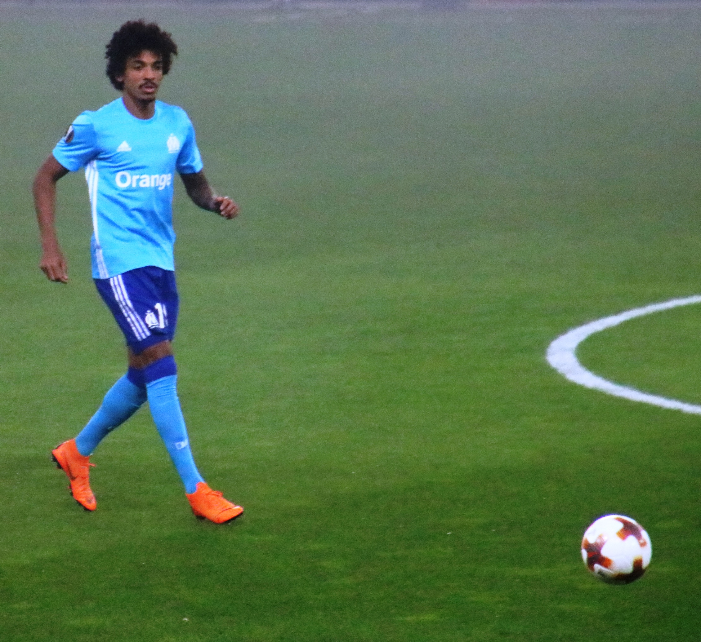 UEFA Euroleague semifinal 2nd leg